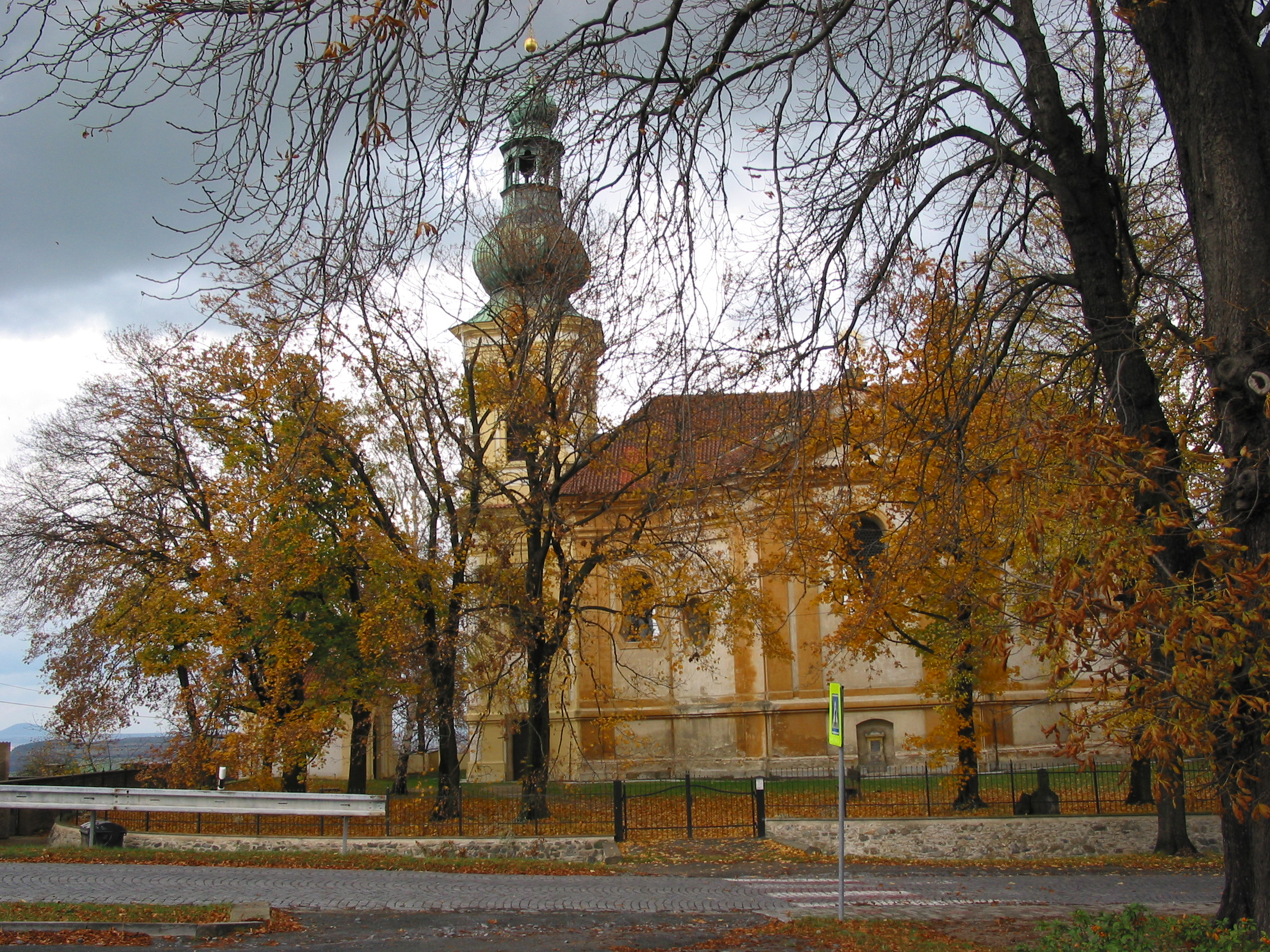 St Clement church in Odolena Voda, Prague-East District, Czech Republic.